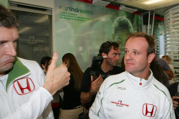 On May 10th, Honda Racing F1 Team celebrated the record-breaking 257th start in Formula 1 World Championship of its driver Rubens Barrichello